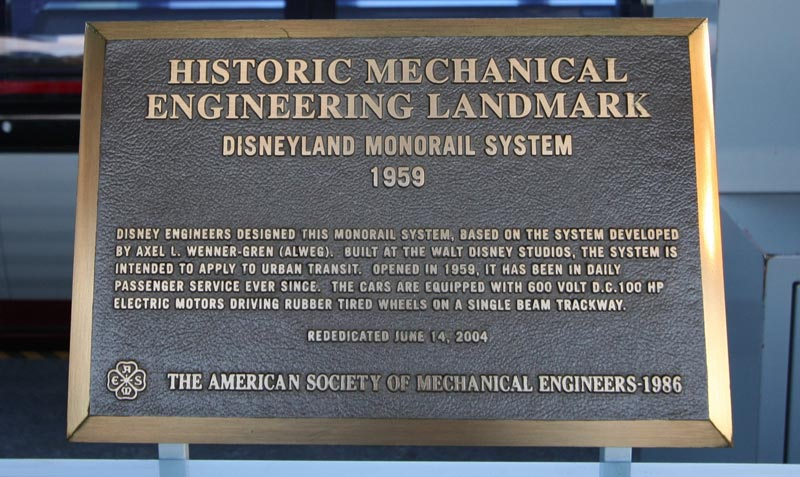 Plaque commerating Disneyland's monorail rededication June 14, 2004. The plaque is located at the Tomorrowland Station.